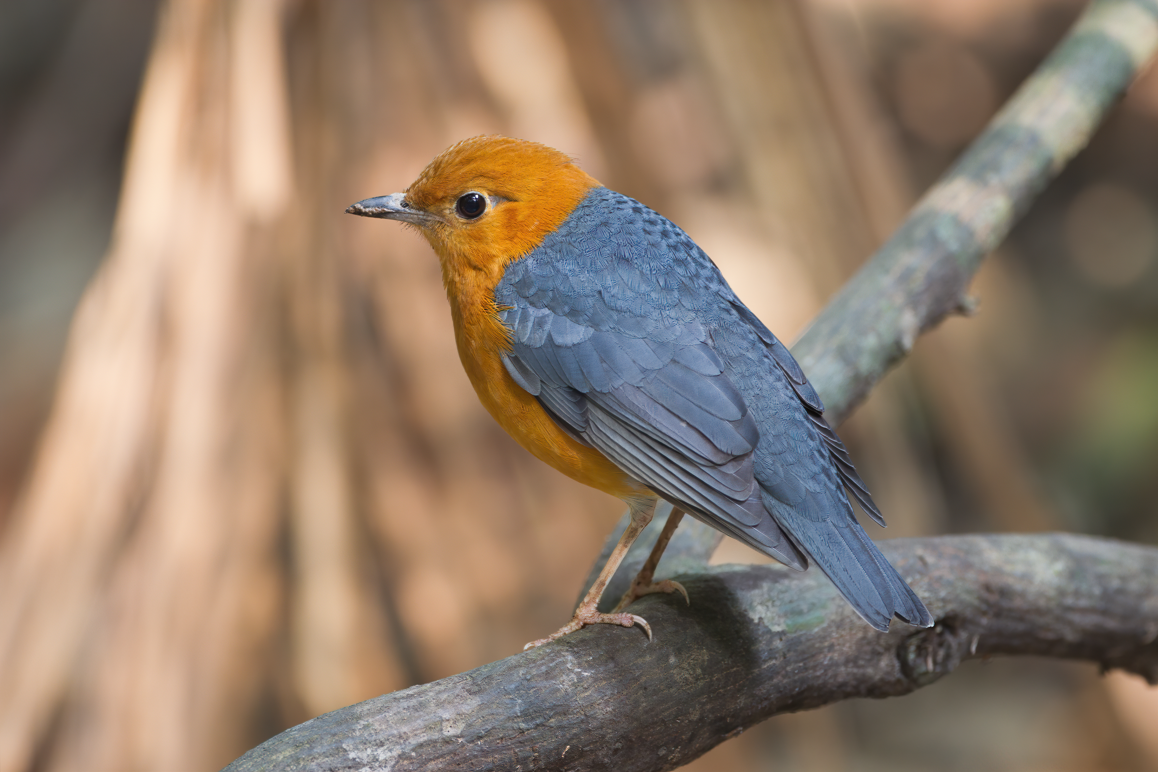 Orange-headed Thrush (Zoothera citrina innotata), Khao Yai National Park, Nakhon Ratchasima, Thailand